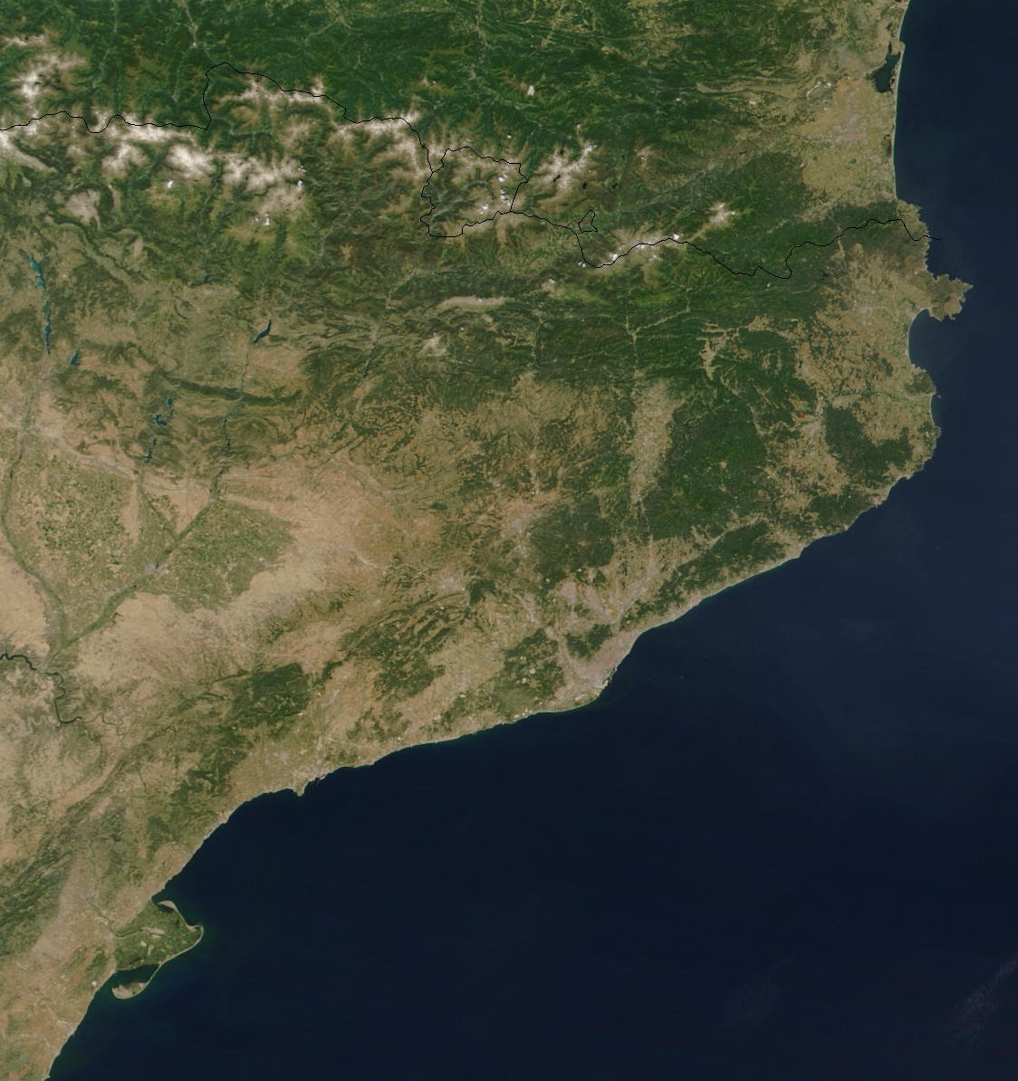 Satellite image of Catalonia